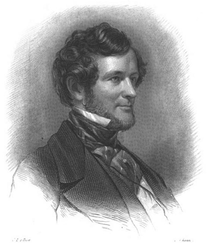 Steel engraving of American writer Lewis Gaylord Clark, from The Knickerbocker Gallery: A Testimonial to the Editor of the Knickerbocker Magazine by its contributors (editors included Rufus Griswold and George P. Morris). From frontispiece. Published by S. Hueston, 1855.